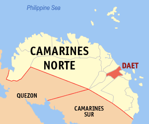 Map of Camarines Norte showing the location of Daet